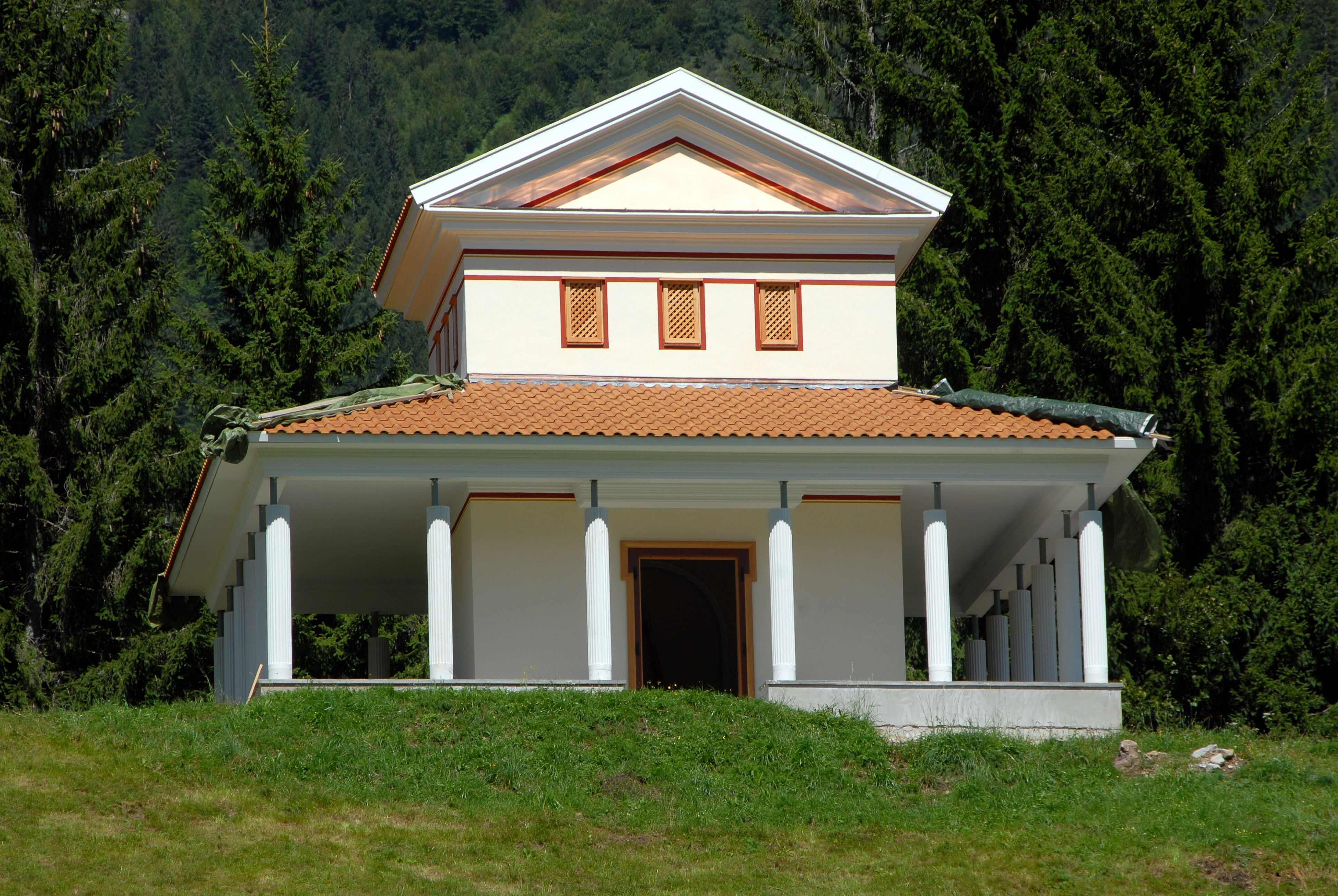 Recently set up temple "Herkulaneum" at the archaeological site Gurina in the community Dellach (Gailtal), district Hermagor, Carinthia, Austria